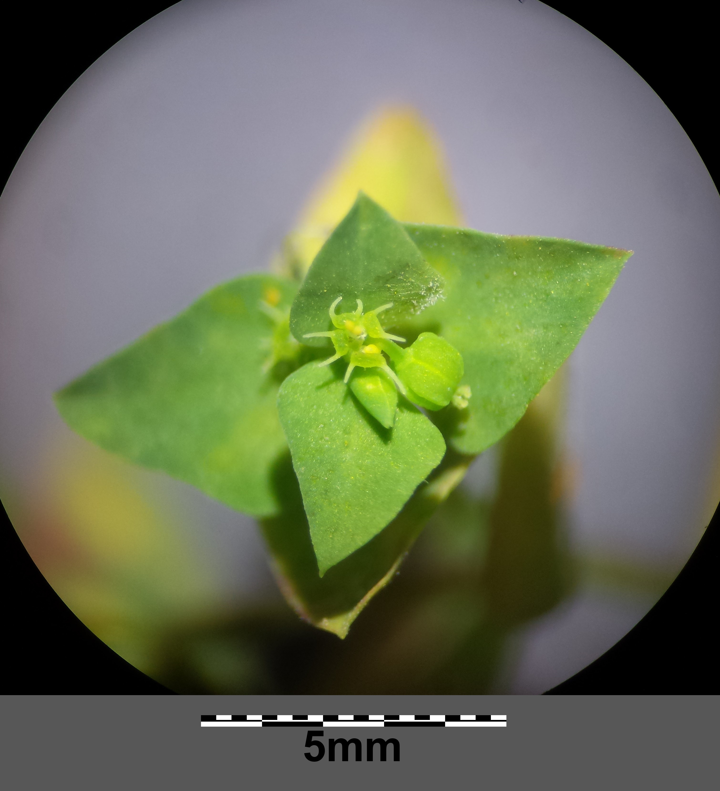 Inflorescence Taxonym: Euphorbia peplus (s. str.) ss Fischer et al. EfÖLS 2008 ISBN 978-3-85474-187-9 Location: Gebmanns, district Korneuburg, Lower Austria - ca. 250 m a.s.l. Habitat: ruderal area